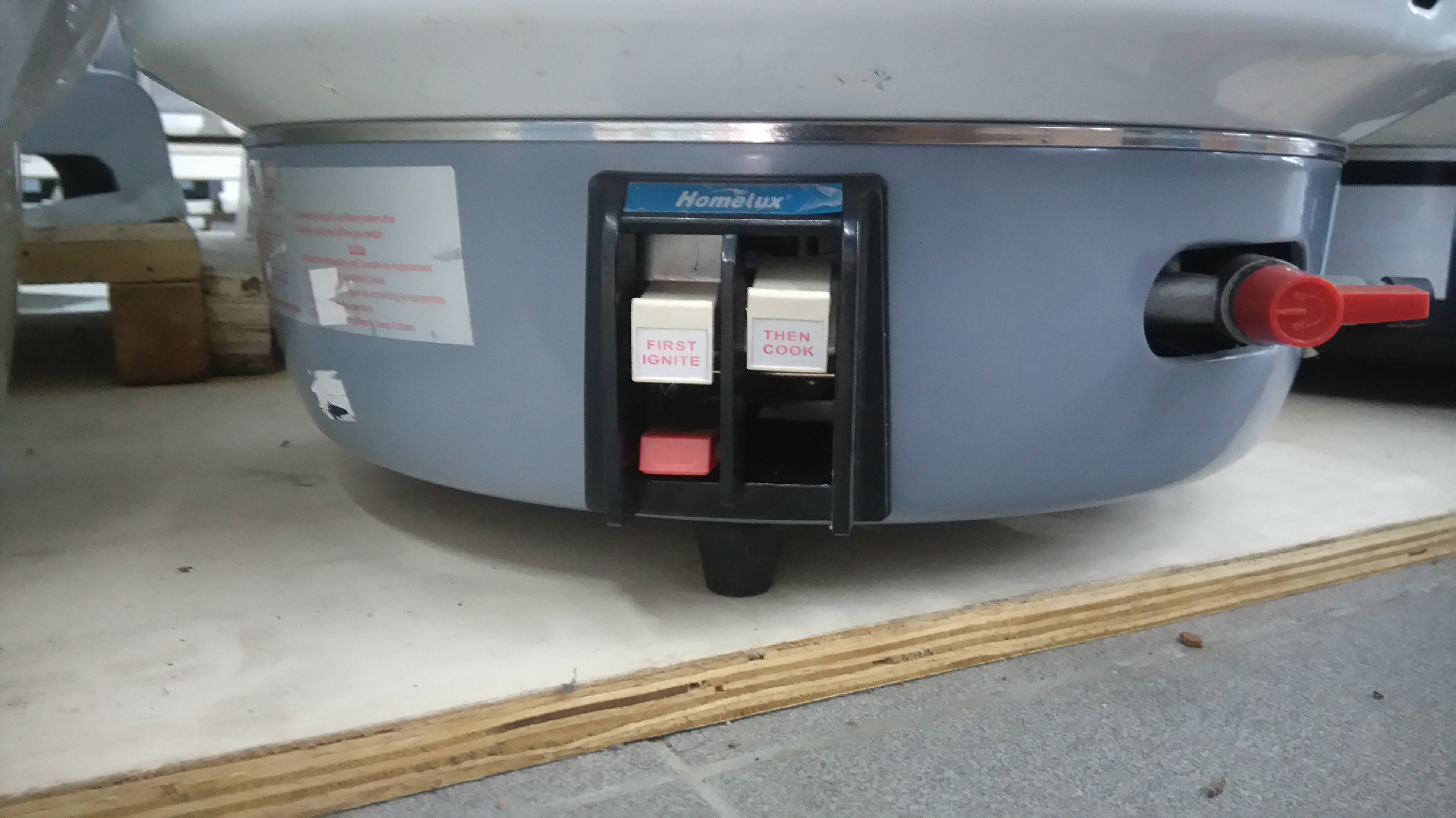 A typical gas-operated gas rice cooker.